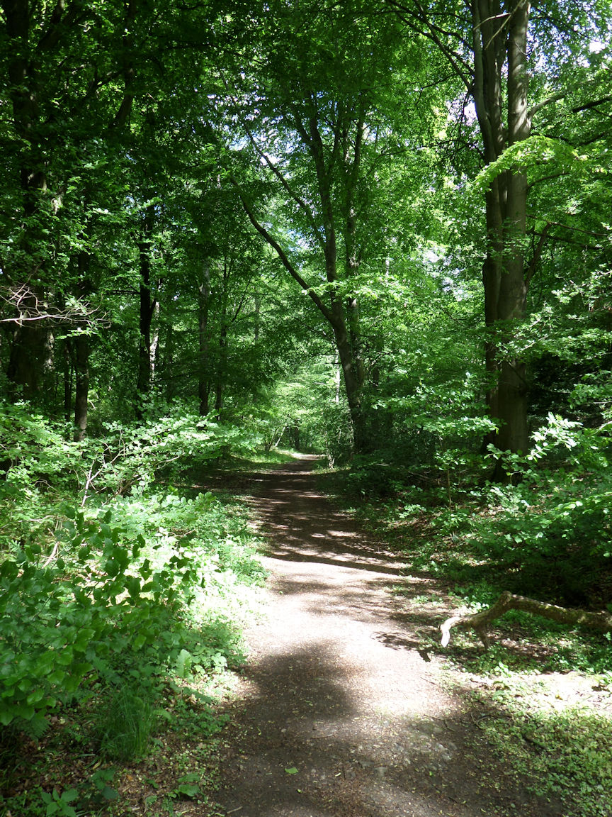 The Hertfrdshire Border Walk in Hockeridge Bottom (Herts/Bucks border)